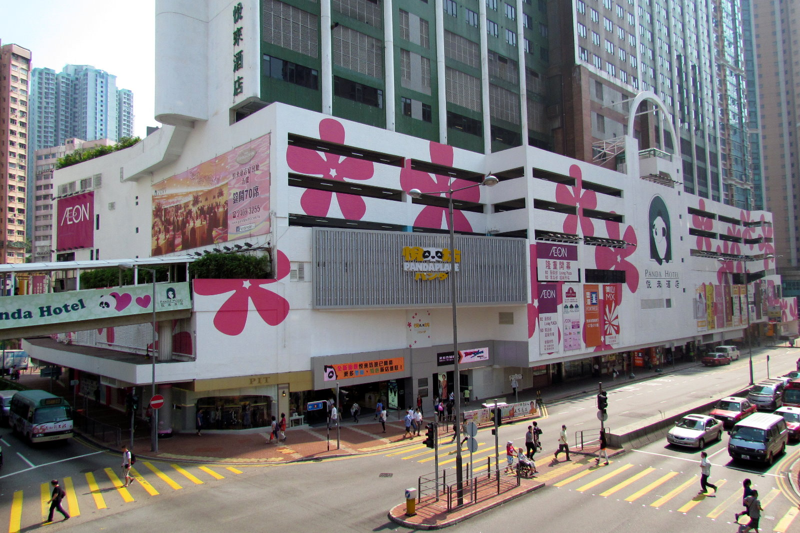 Appearance of Panda Place, Tsuen Wan, Hong Kong